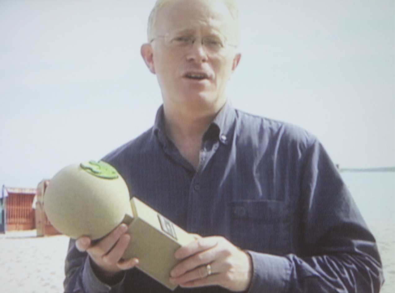 Mike Gunton, director of BBC Natural History, takes the trophy for the Best Ecological Film, Cork - Forest in a Bottle, handed over to him from the International Wildlife Filmfestival Green Screen Eckernfoerde. The private presentation of awards took place at the Eckernfoerde Beach, because Gunton had to fly back before the official presentation.